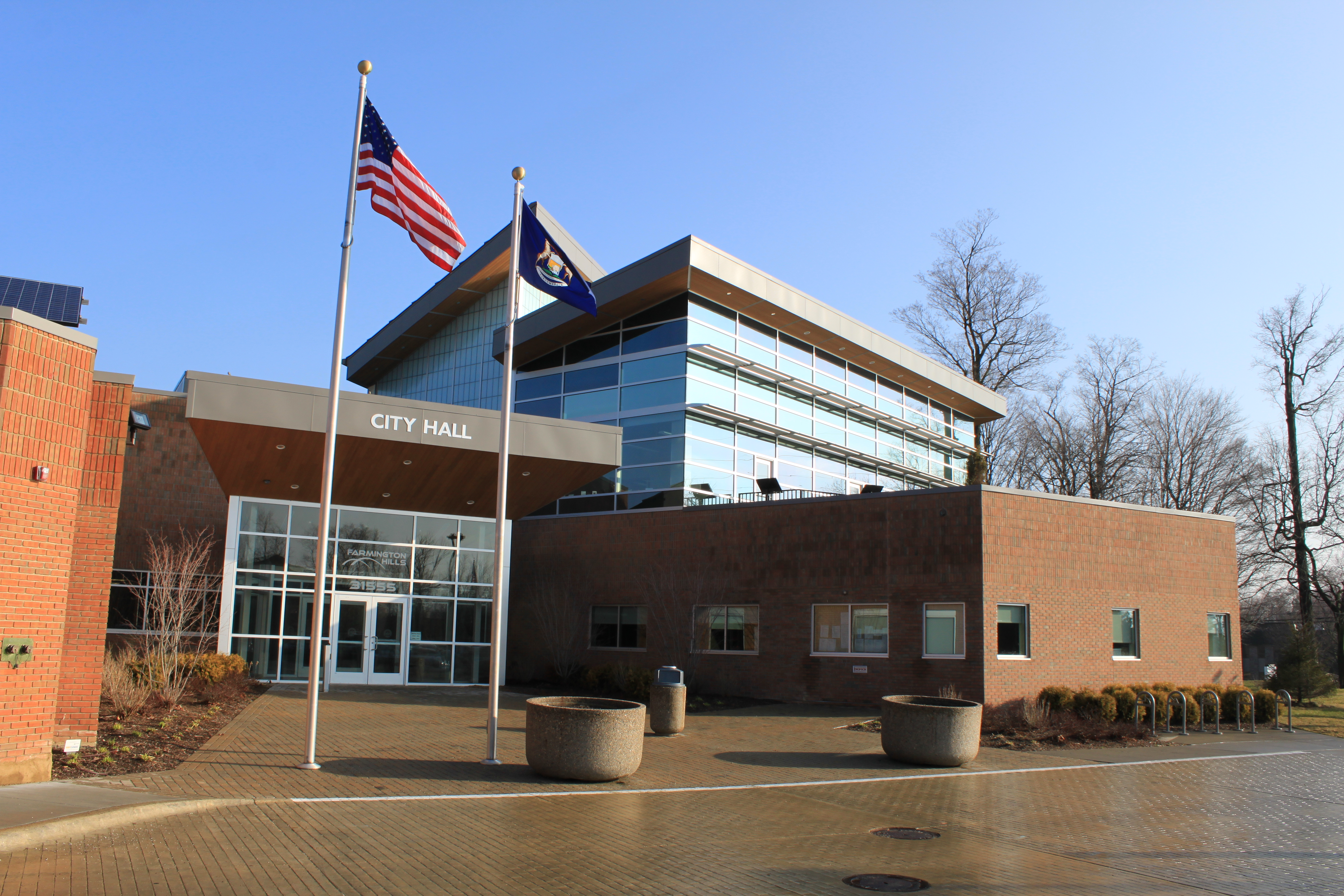 Farmington Hills City Hall — southeastern Michigan, 31555 West Eleven Mile Road, Farmington Hills, Michigan.